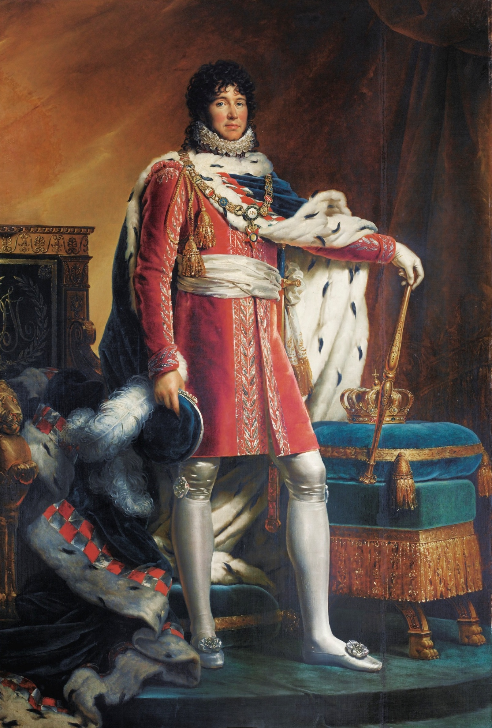 The King of Naples is standing upright, draped in a sumptuous cloak lined with ermine. He holds in his right hand the black velvet cap adorned with white feathers which every person in charge of the court must wear. Joachim Murat wears the sword at his waist and holds the scepter with his left hand. The royal crown is placed on a cushion at its sides. Another version exists with a notable variant: a gilded military helmet decorated with white feathers placed on the piece of furniture on the left. This same helmet was to appear originally on the present painting and it is probably still in place, masked by a repainted, perhaps made by Étienne-François Haro at the request of the family, during the restoration of 1867. Étienne-François Haro (1827-1897) and his son Henri Haro (1855-1911) were famous merchants of color, experts, restorers and merchants of paintings, but also painters themselves.